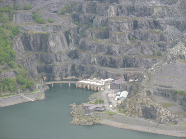 The outlet (and inlet ) of the Dinorwig HEP Scheme The embayment was created during the construction of the Dinorwig Power Station in the 1980s. This has resulted from raising the level of the lake which inundated the old Muriau and Hafod Owen 'sincs'. During the day water from Llyn Marchlyn Mawr is used to power the station's six generators, the water then being discharged into Llyn Peris. At night, surplus energy is used to pump water back to Marchlyn.